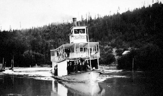 Klahowya sternwheel steamboat on Columbia River, British Columbia, ca 1910. The photograph source supplies no date, but this vessel only operated from 1910 to 1915.